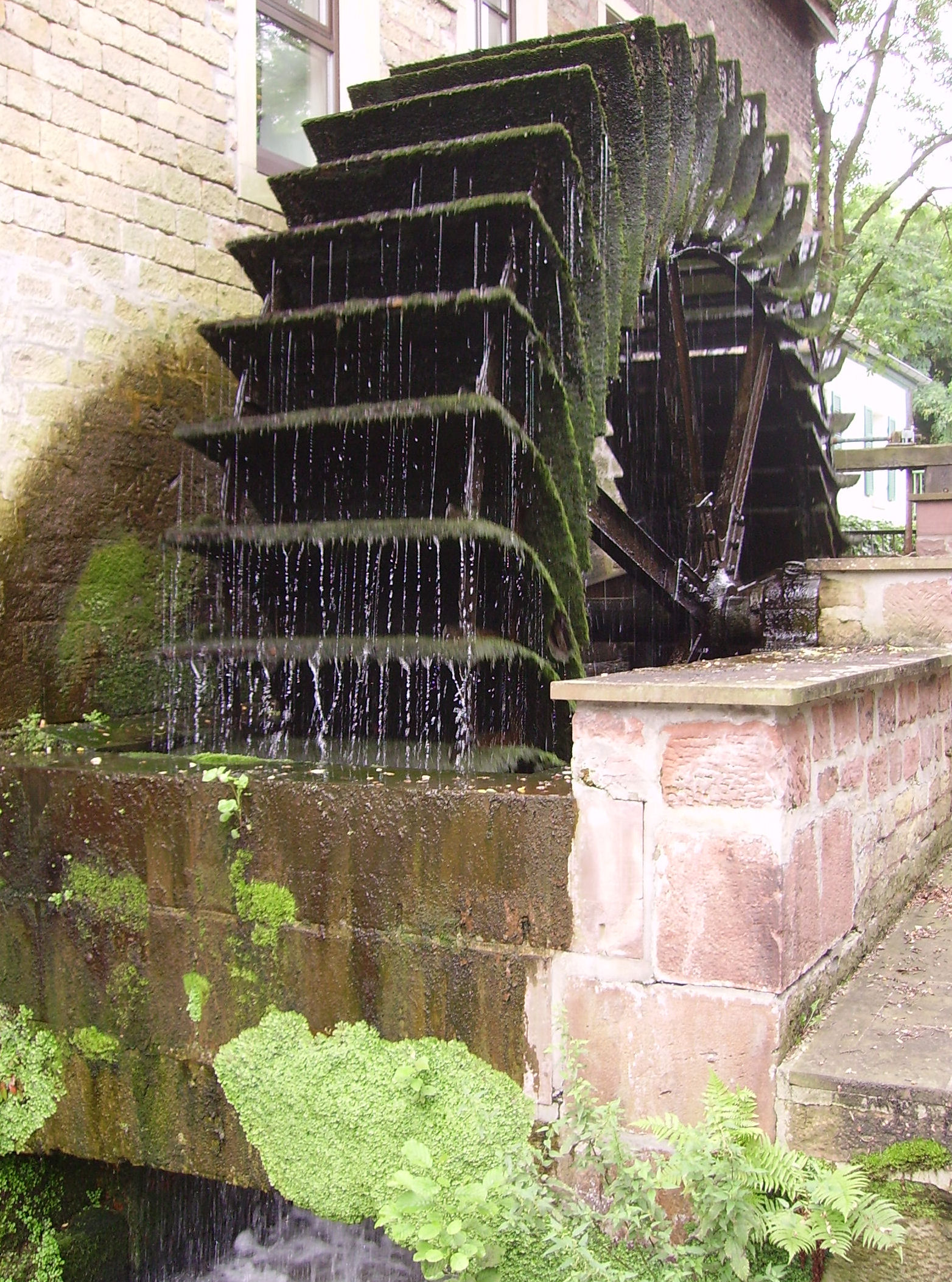 view of Limburgerhof, Germany